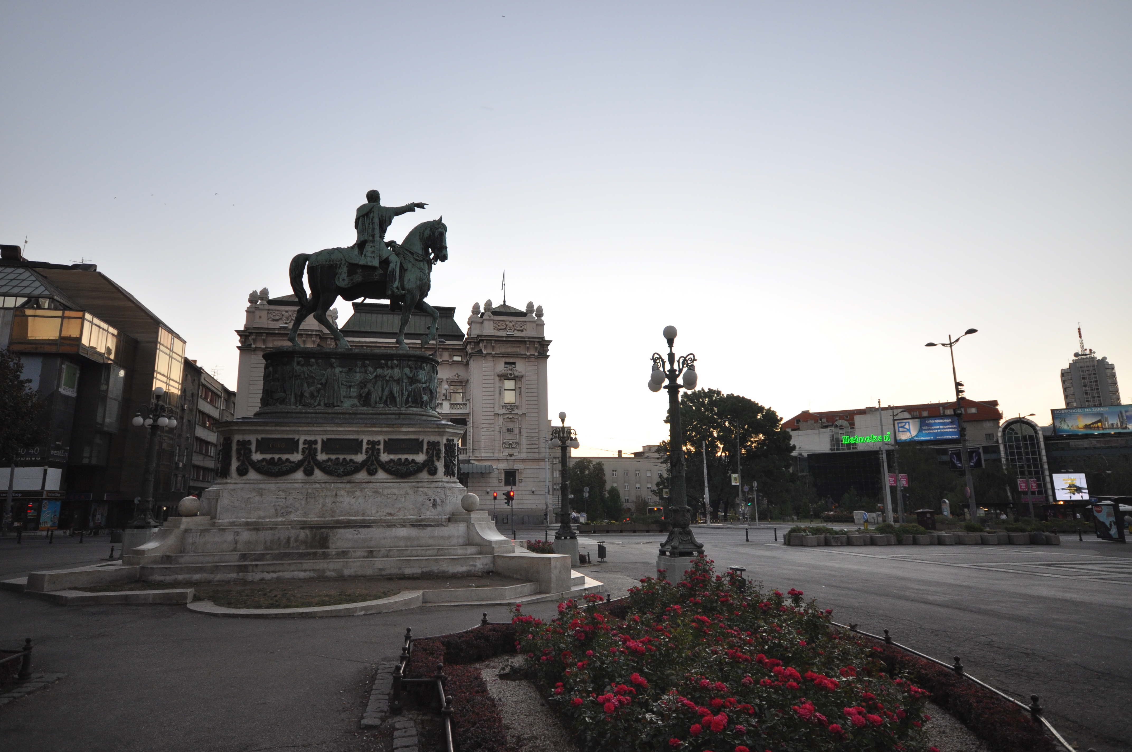 Republic Square or Square of the Republic (Трг Републике / Trg Republike) is one of the central town squares and an urban neighborhood of Belgrade, located in the Stari Grad municipality. It is the site of some of Belgrade's most recognizable public buildings, including the National Museum, the National Theatre and the statue of Prince Michael. The square is located less than 100 meters away from Terazije, designated center of Belgrade, to which it is connected by the streets of Kolarčeva (traffic) and Knez Mihailova (pedestrian zone). Many people erroneously consider Square of the Republic to be the center of the city. Through Vasina street it is connected to the fortress and park of Kalemegdan to the west and through Sremska street it is connected to the neighborhood of Zeleni Venac and further to Novi Beograd. It also borders the neighborhoods of Stari Grad and Dorćol, to the north. Today, it makes one of the local communities within Belgrade with a population of 2,360 in 2002